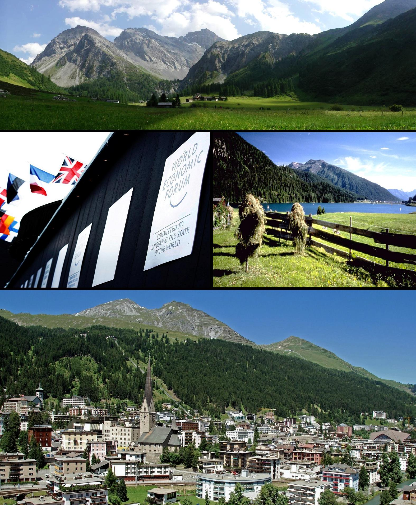 Montage for the Davos article on Wikipedia.